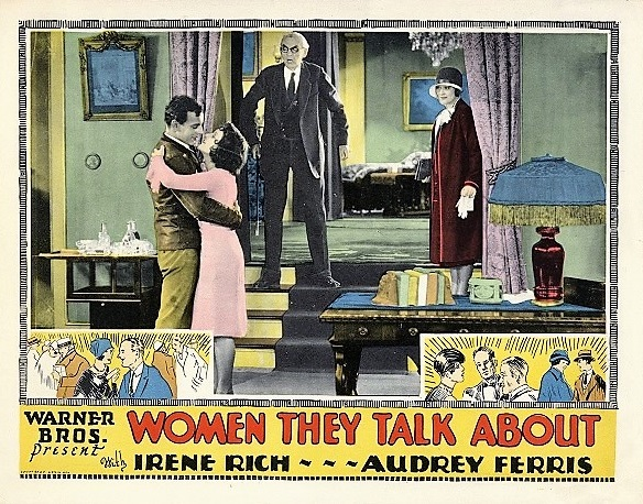 Poster del film Women They Talk About (1928).